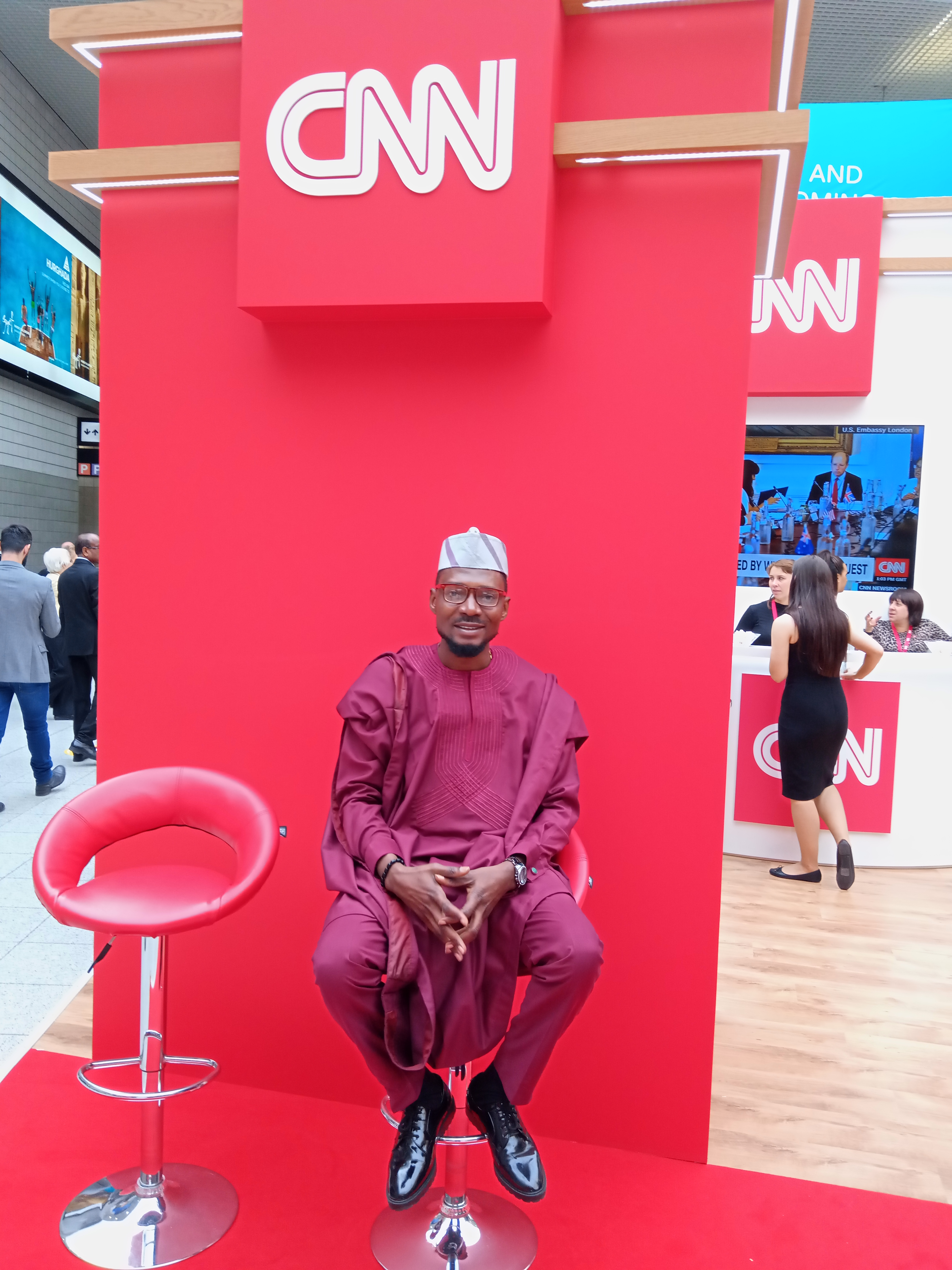 Akapo Emmanuel at the World Travel Market, London, November 2019. Seating for an interview with CNN.